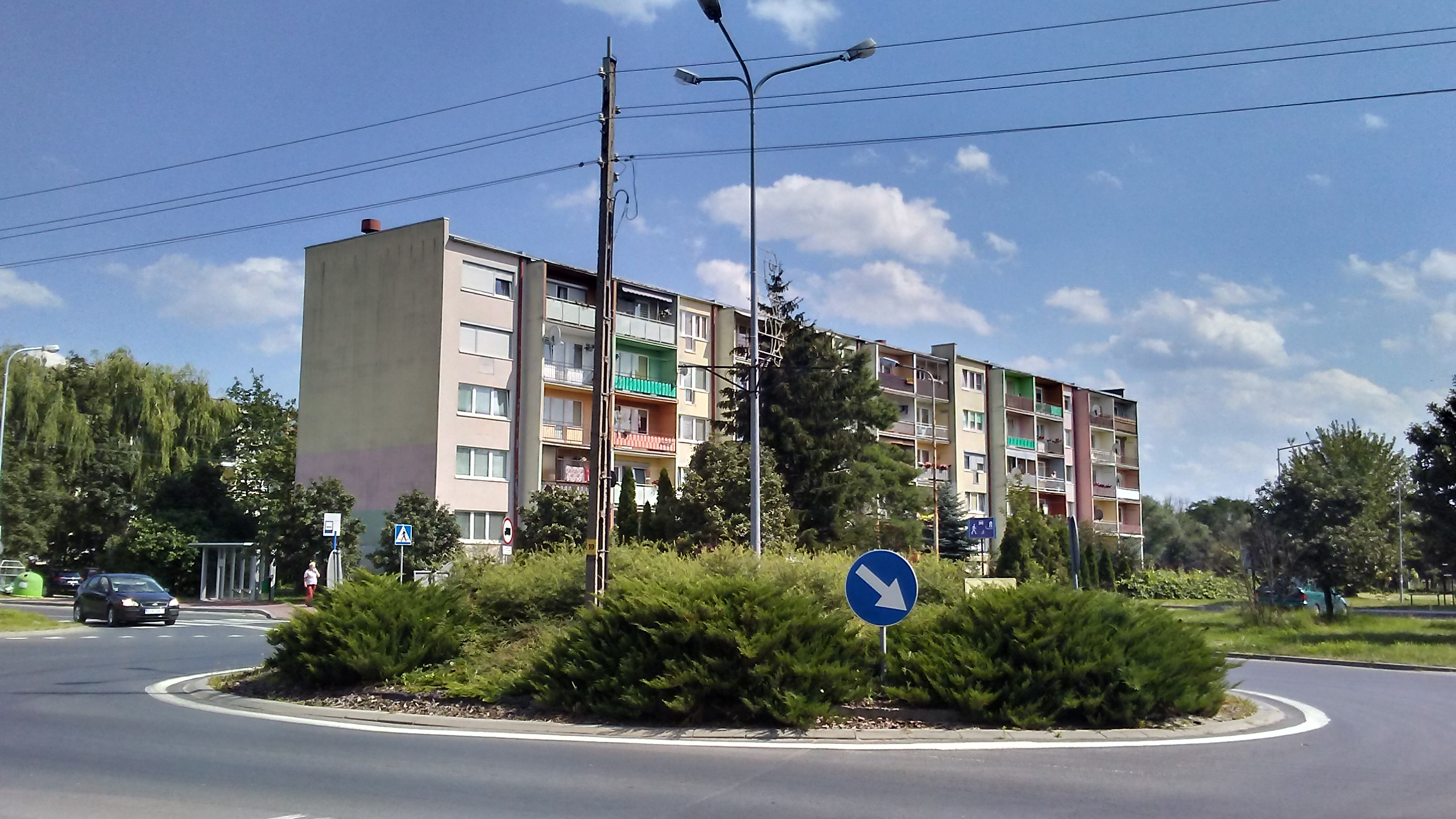 Anna Walentynowicz roundabout in the biggest residential area in Tomaszów Mazowiecki, Poland